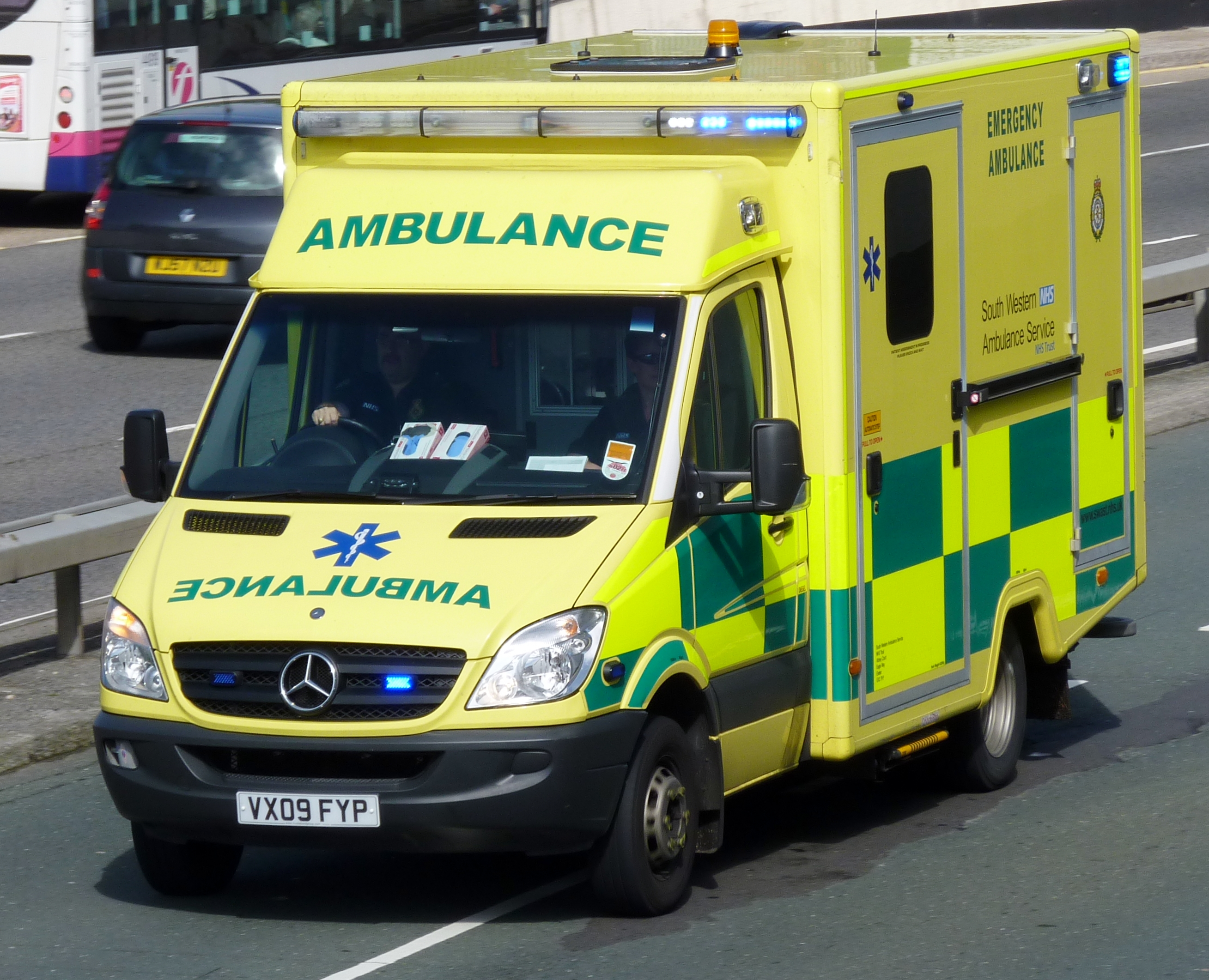 South Western Ambulance